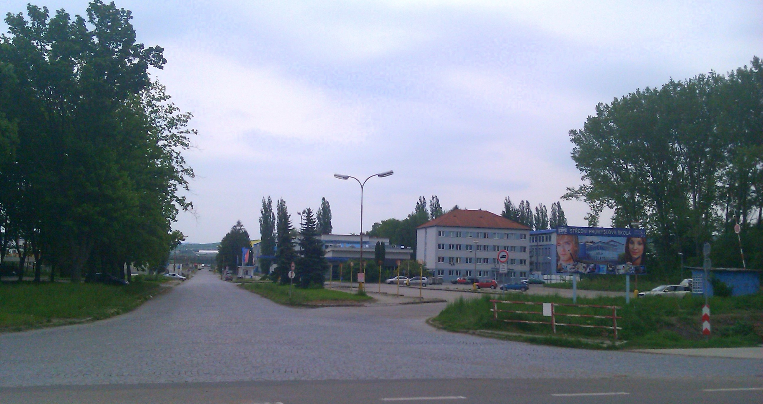 Slovacke strojirny